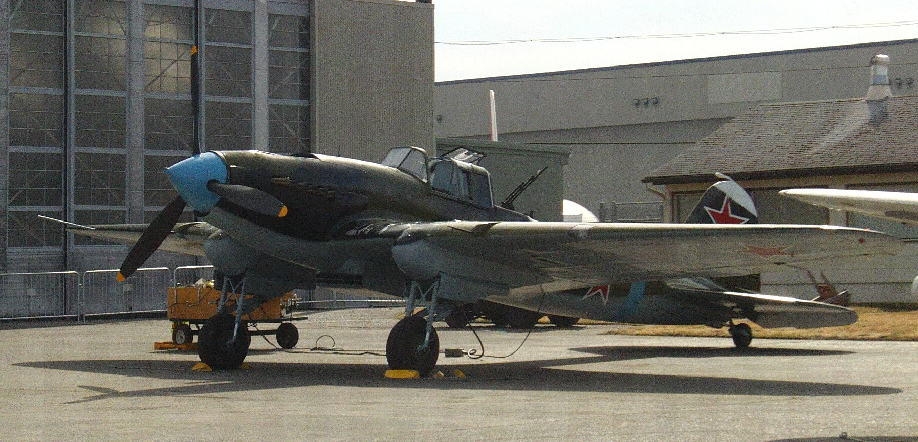 Ilyushin Il-2m3 Shturmovik - Paine Field - USA (Sept 2012) - Ready to fly view 1.